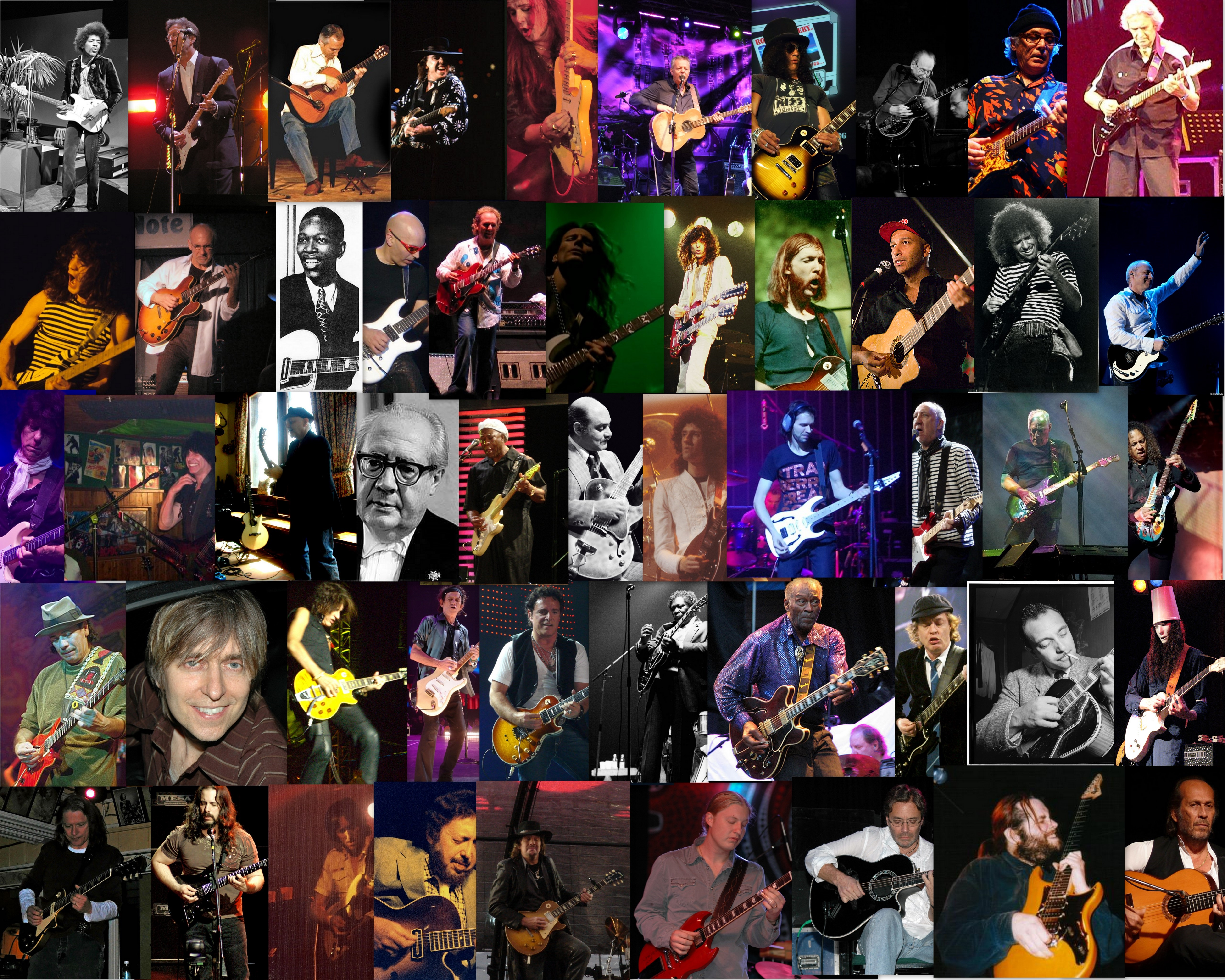 Montage of top guitarists. Please note that they are not in any order of preference. Acknowledge that many fine guitarists are missing but there was only so many I could cram in!! Most of the missing ones like Wes Montgomery, Johnny Smith, Jason Becker,Lenny Breau, Tal Farlow, Chet Atkins, Doyle Dykes, Laurence Juber, Merle Travis etc had no free images were available at the time to be included.